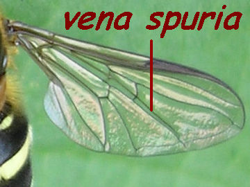 Vena spuria indicated on the wing of a Flower-fly (Hoverfly) (Syrphidae)